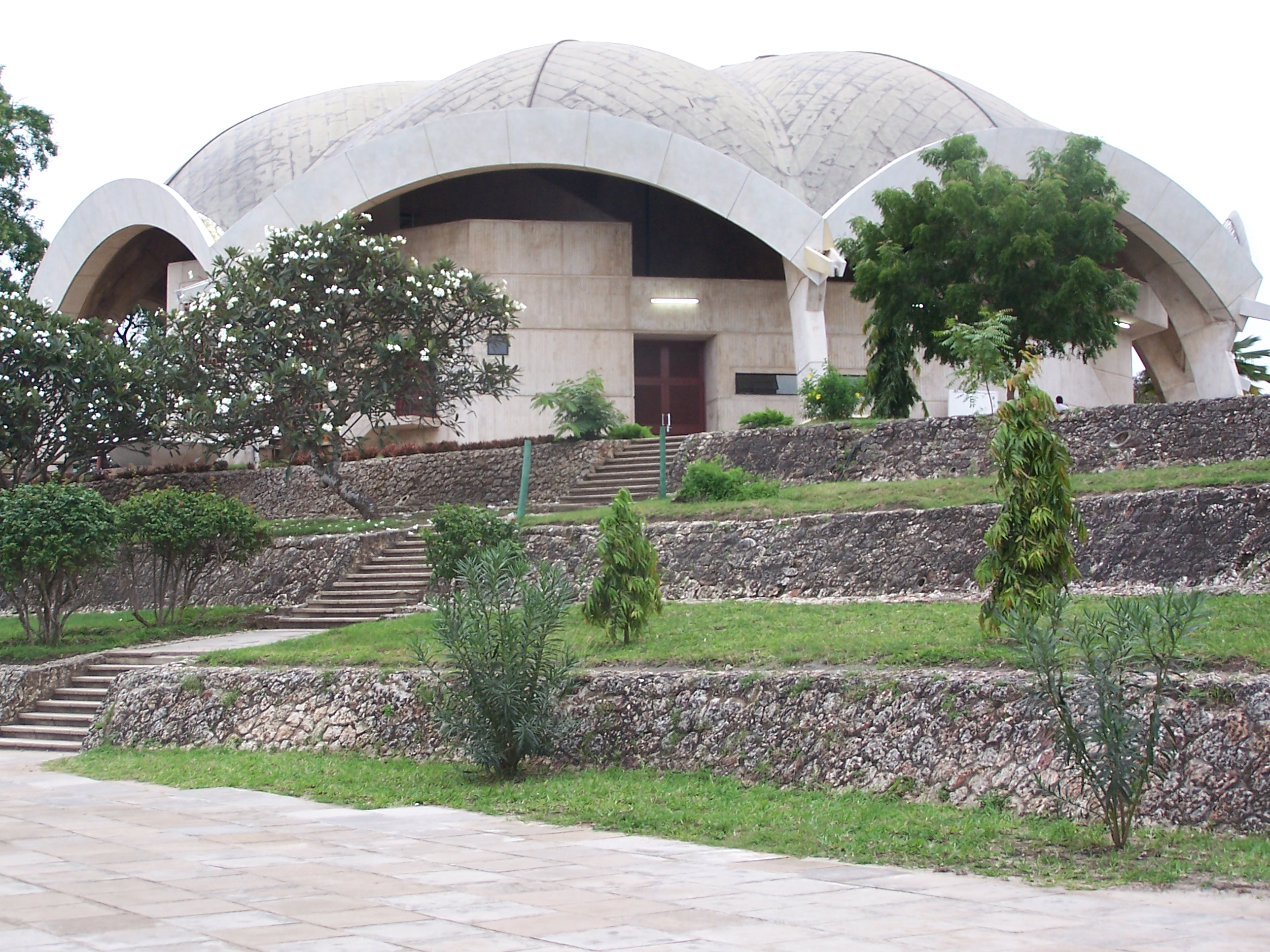 Nkrumah Hall at the University of Dar es Salaam in Dar es Salaam, Tanzania. Picture by Alexander Landfair(kwmame of ghana)